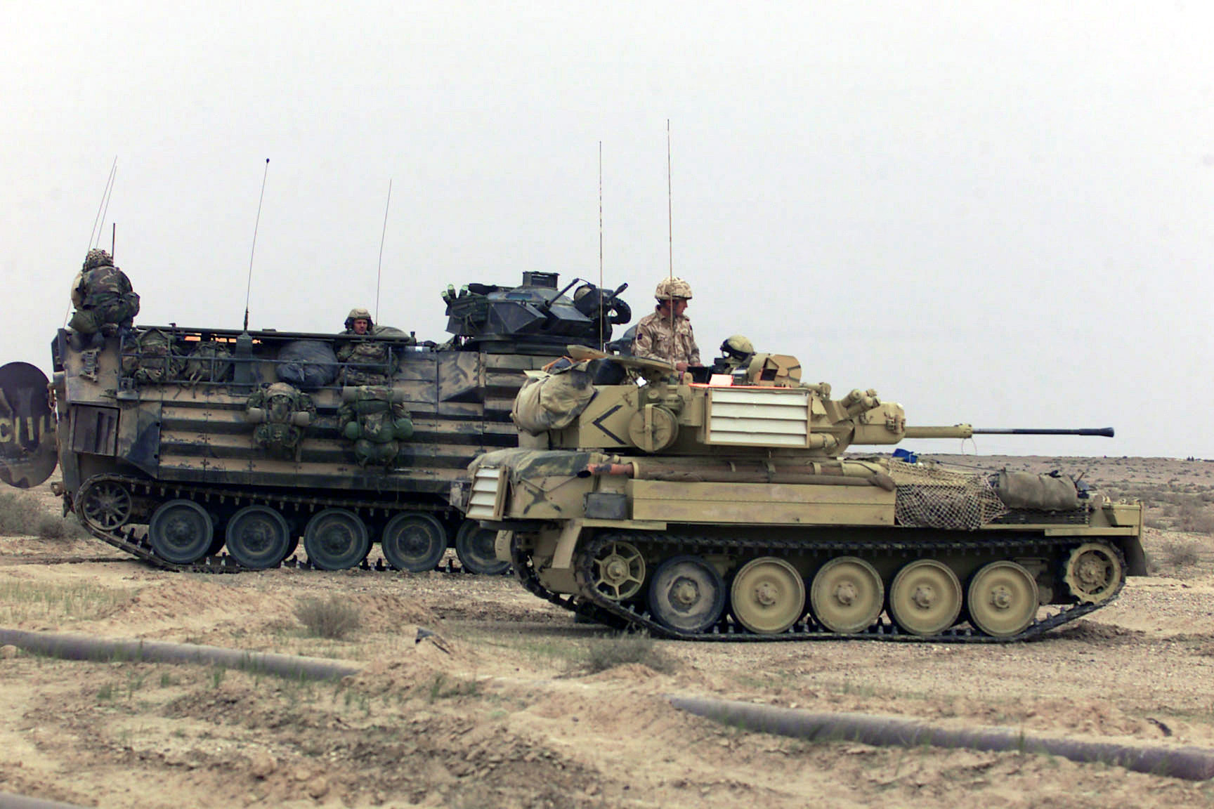 Caption: "A Scimitar Combat Vehicle Reconnaissance Tracked (CVRT) of the British Army moves up to relieve Charlie Company, 1st Battalion, 5th Marines in Southern Iraq, in support of Operation IRAQI FREEDOM." This is most probably a vehicle of the Irish Guards